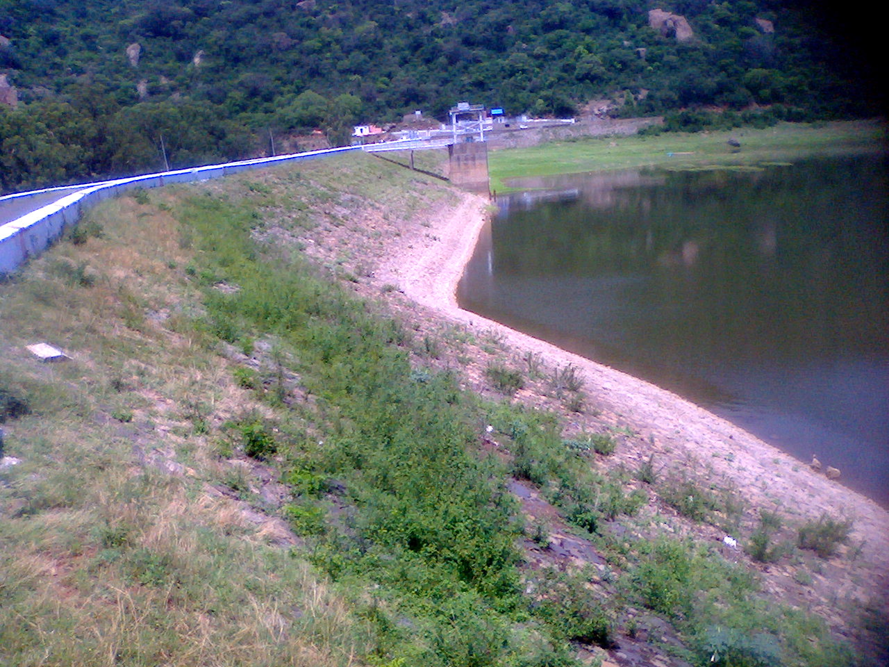 பஞ்சப்பள்ளி அணை